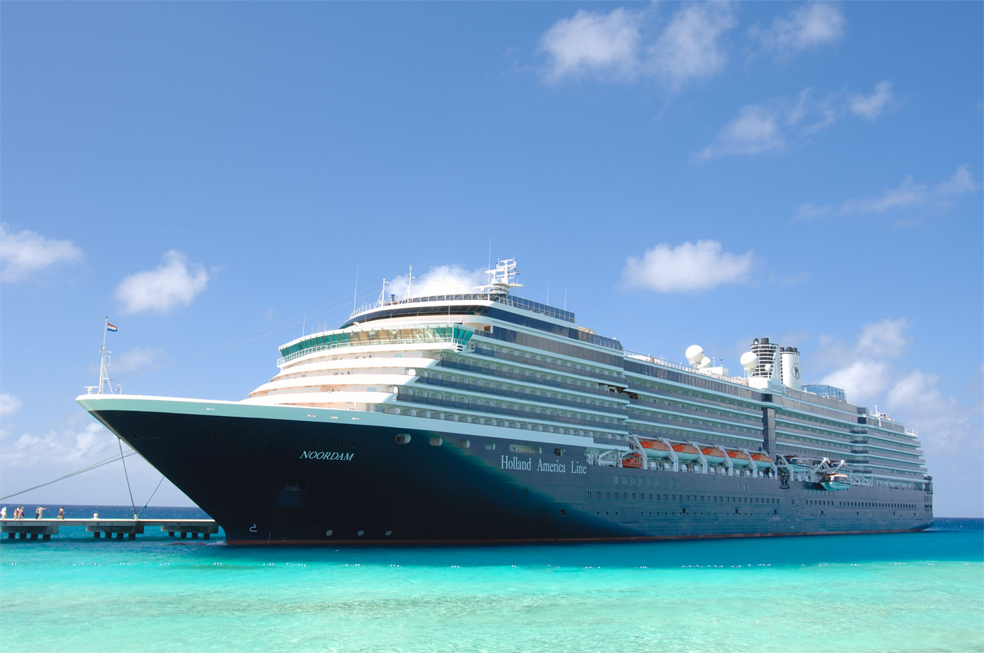 MS Noordam in Grand Turk, Turks and Caicos. Author: Bob Nicolescu March 2007